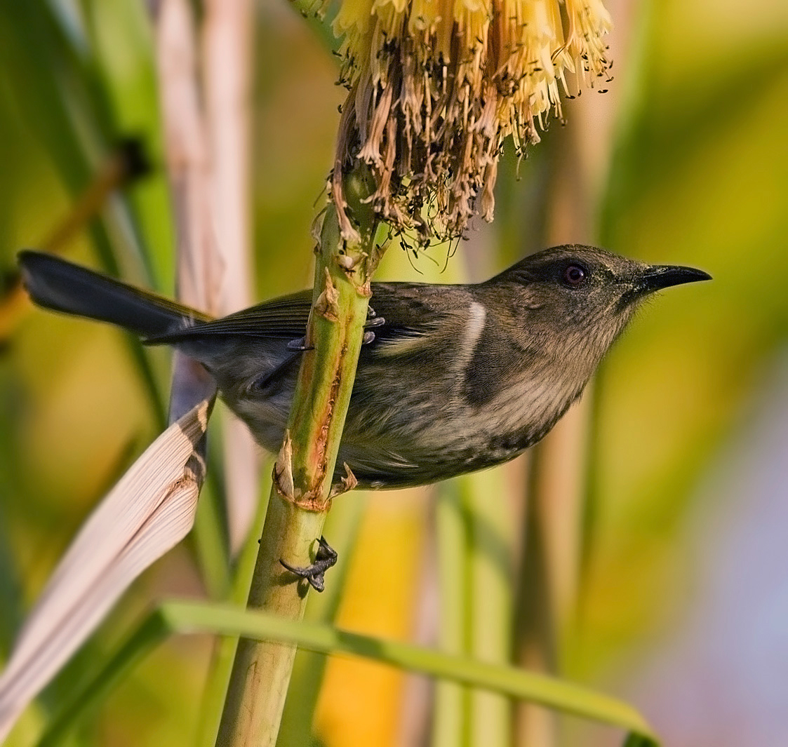 A female Crescent Honeyeater (Phylidonyris pyrrhopterus). Camera data Camera Canon EOS 400D Lens Canon EF 70-200mm f4L Focal length 200 mm Aperture f/4 Exposure time 1/2000 s Sensivity ISO 400